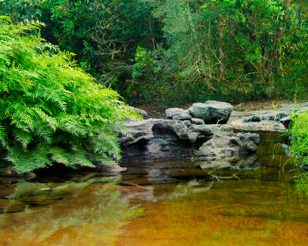 5 Digital back: Leaf Aptus